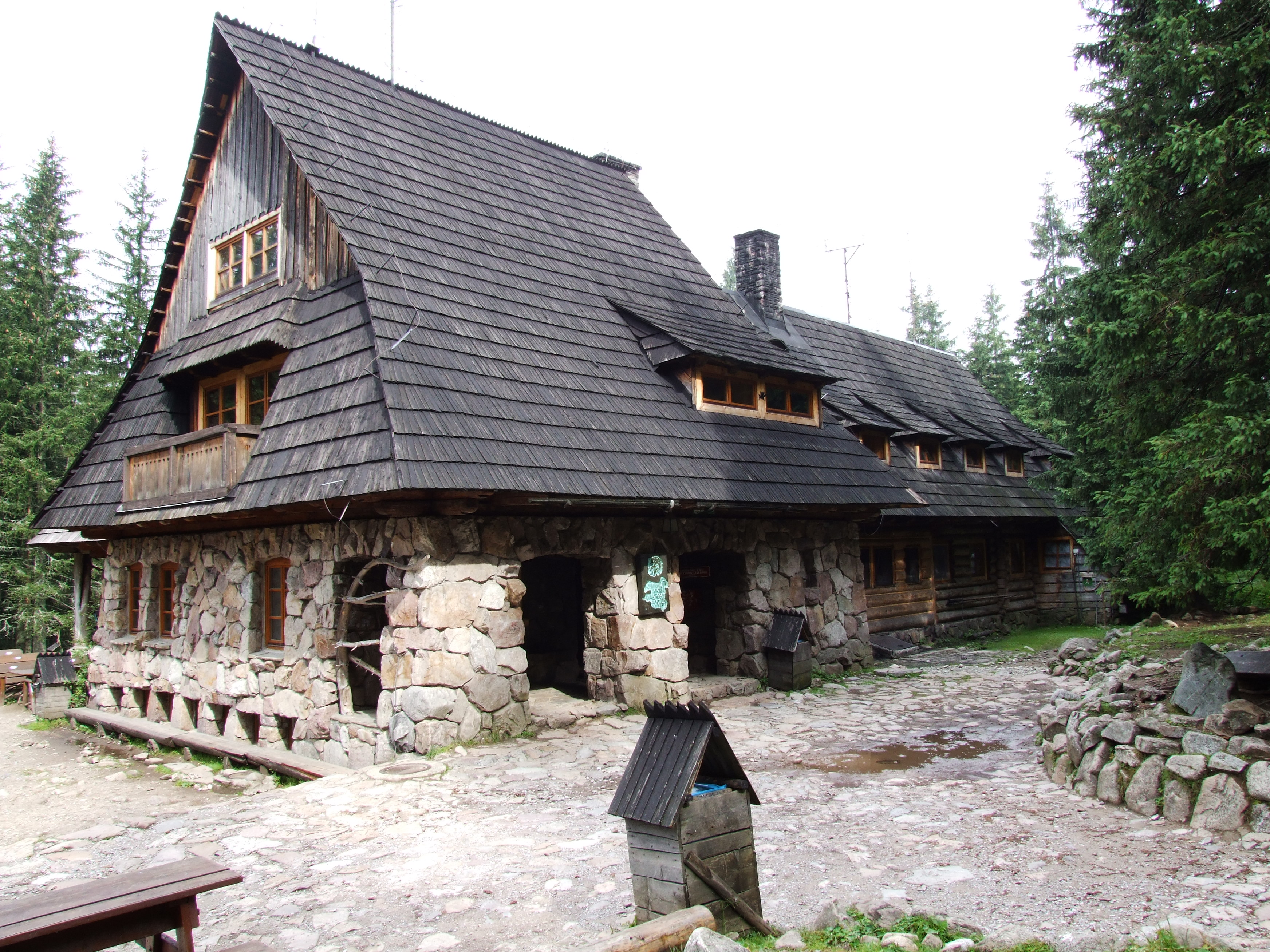 A mountain hostel (hut) in Kościeliska Valley (Western Tatras, Poland)